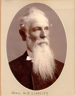 William D. Lindsley, member of the United States House of Representatives from Sandusky, Ohio.